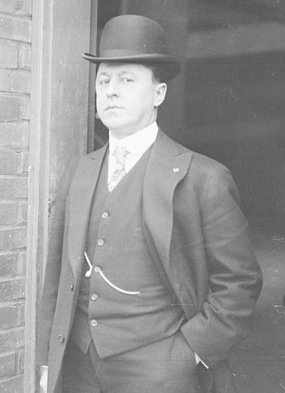 Photograph of Clarence Henry "Pants" Rowland